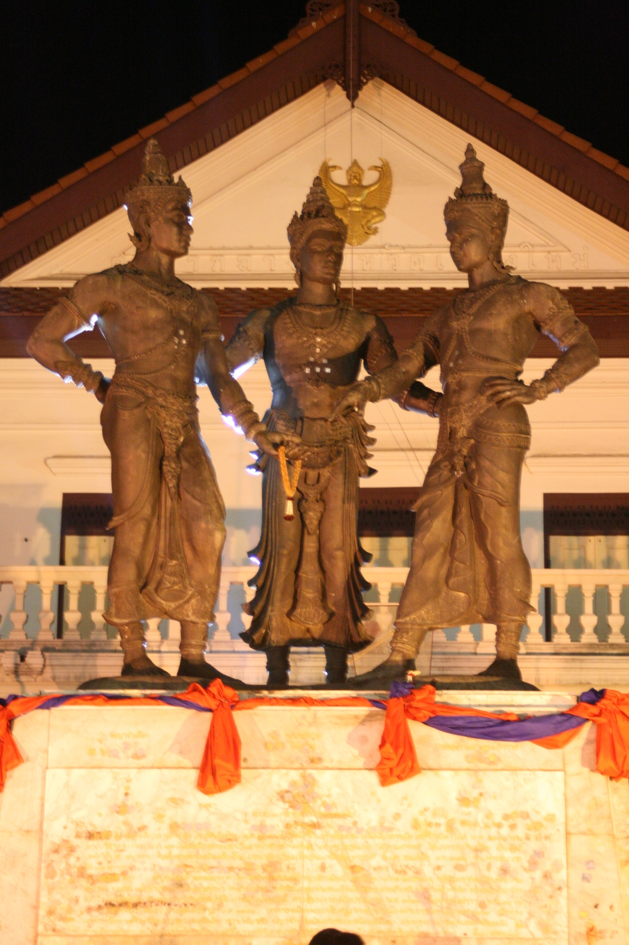 The 3 kings are King Ramkhamhaeng of Sukhothai Kingdom (right), Phaya Ngammuang of Payao (left) and Phaya Mungrai of Lanna Kingdom (center). This monument is located at Chiangmai.